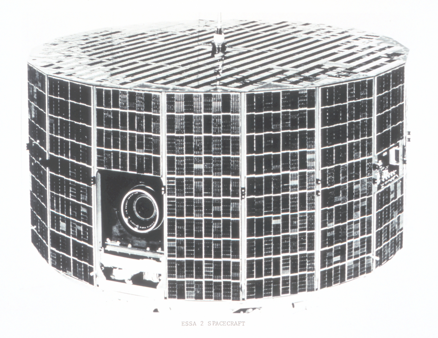 ESSA 2 TIROS satellite launched on February 28, 1966.